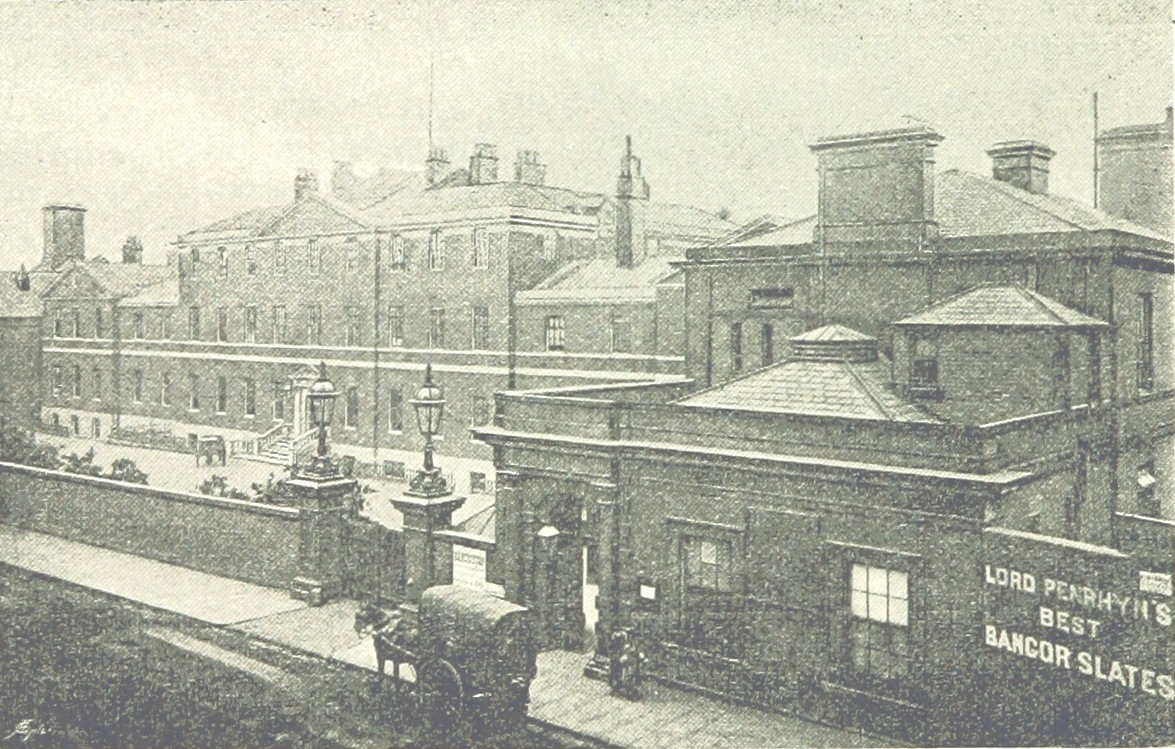 Image extracted from page 146 of The Making of Birmingham: being a history of the rise and growth of the Midland metropolis ... With ... illustrations, etc. Publisher: J. L. Allday', by Robert Kirkup Dent. Original held and digitised by the British Library. Copied from Flickr. Note: The colours, contrast and appearance of these illustrations are unlikely to be true to life. They are derived from scanned images that have been enhanced for machine interpretation and have been altered from their originals.